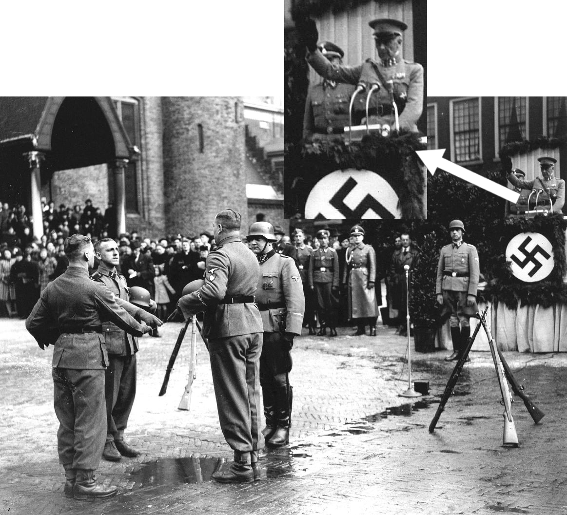 Lieutenant General Hendrik Alexander Seyffardt (1872-1943), commander of the Netherlands Volunteer Legion of the Waffen-SS, giving the Hitler salute at the Inner Courts of The Hague during the swearing in of volunteers for the Eastern Front. He is dressed in a Dutch general's uniform, standing on a podium with swastika flag. January 1, 1941